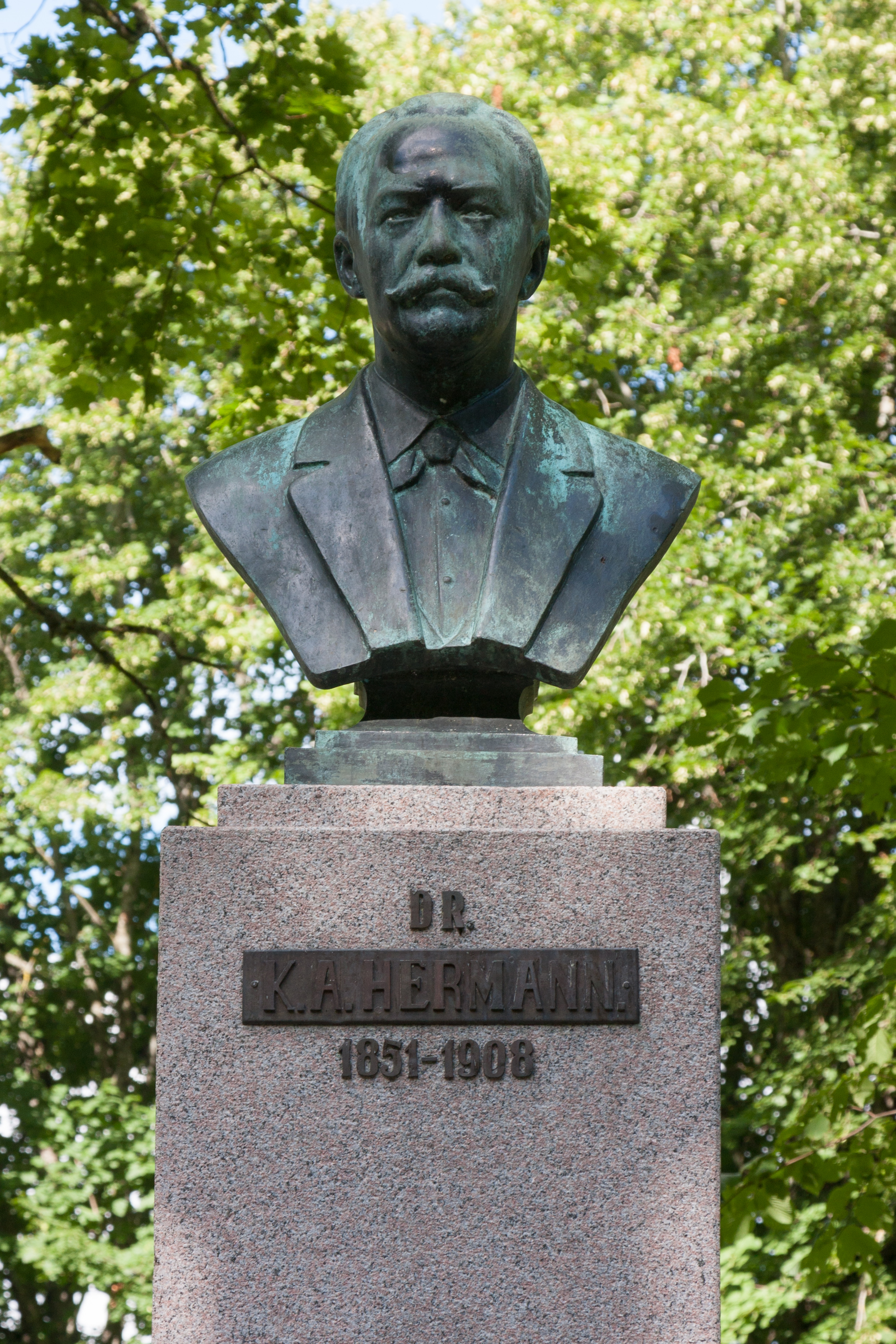 Karl August Hermann monument in Põltsamaa.